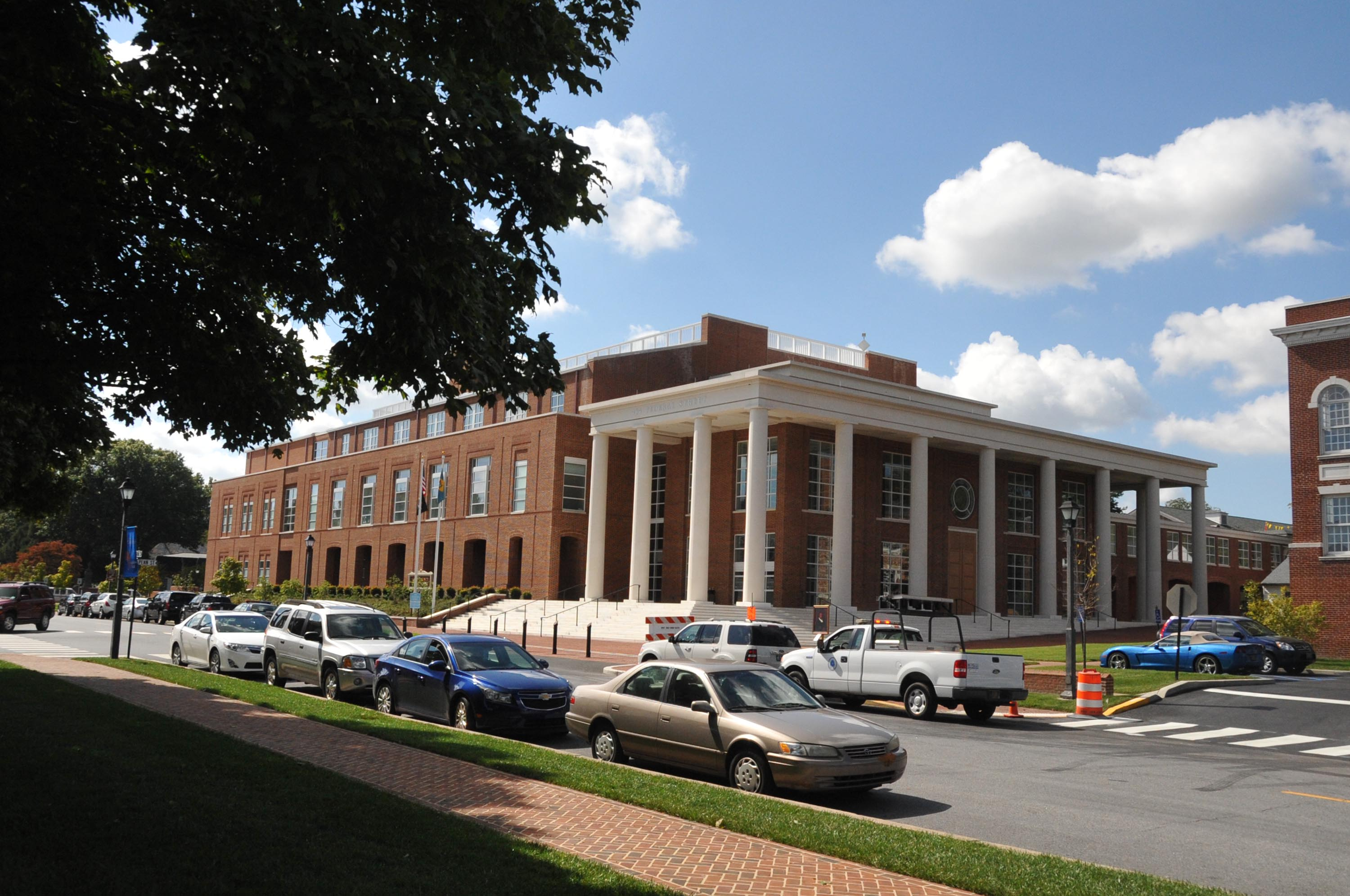 THIS ONE IS LOCATED CLOSE TO THE OLD ONE WHICH IS ON THE GREEN